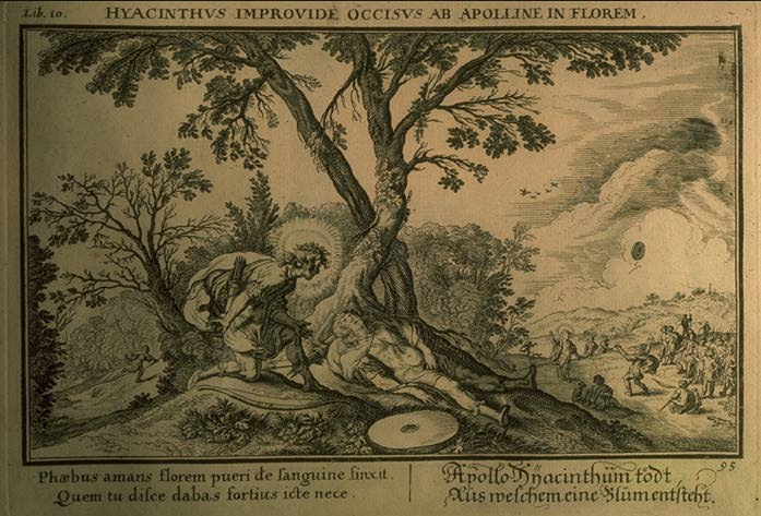 Apollo and Hyacinthus. Engraving by Bauer for a 1703 edition of Ovid's Metamorphoses Book X, 162-219.